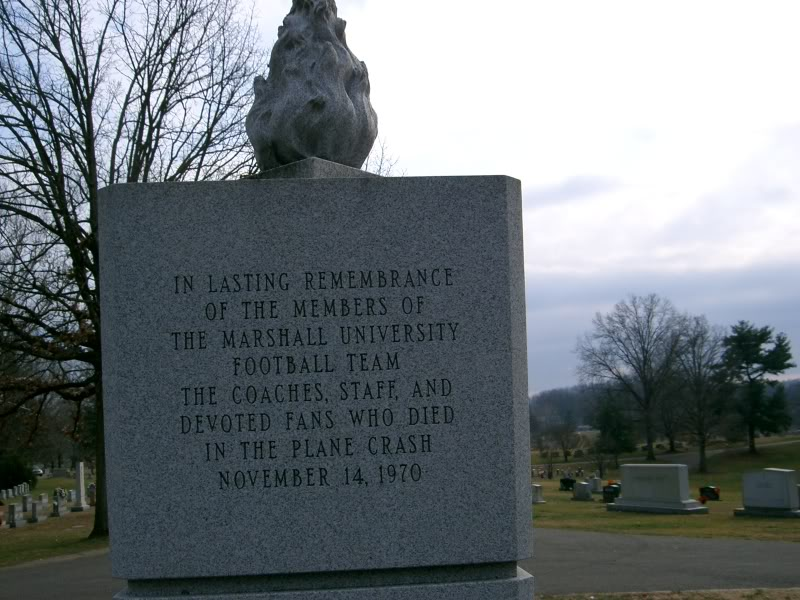 Enscription written on the back of the monument located at the burial site and memorial for the unidentified victims of th 1970 plane crash. This site also served as the actual filming location for one of the most moving scenes in the movie, We Are Marshall.